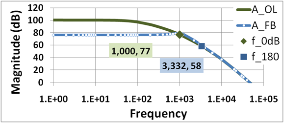 Bode plot illustrating gain margin